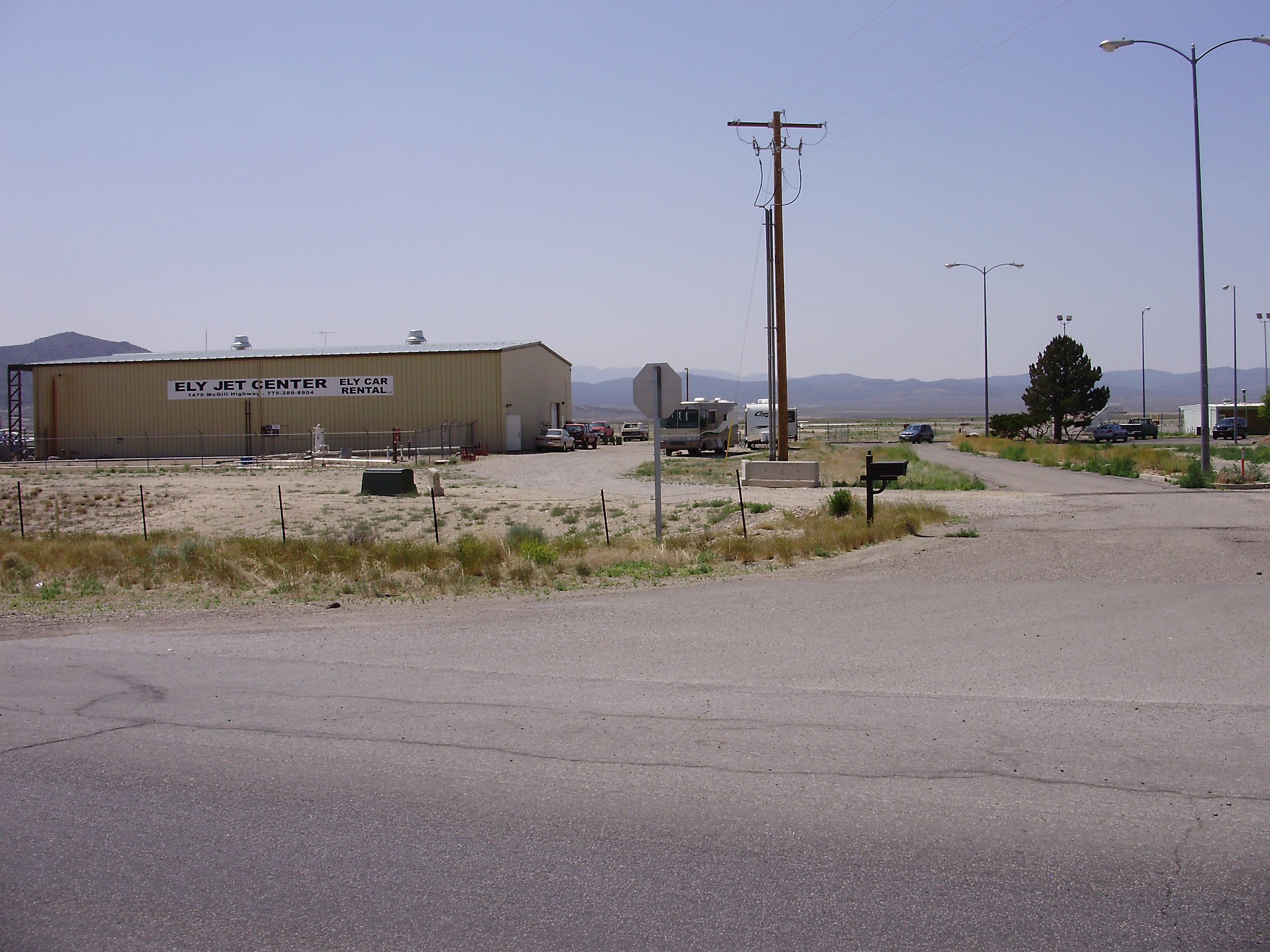 Ely Airport main entrance